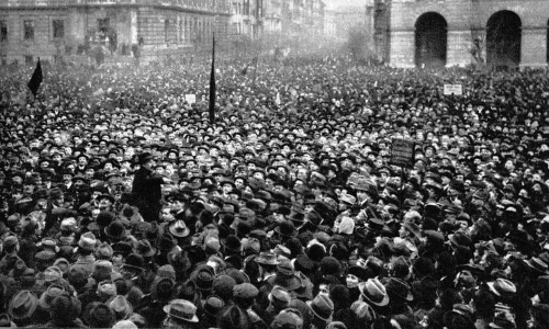 Garbai Sándor. Taken on the 21st of March, 1919. Kossuth tér, Budapest, Hungary. Central Europe. Károlyi Mihály handed the power to the Communist Party of Hungary.